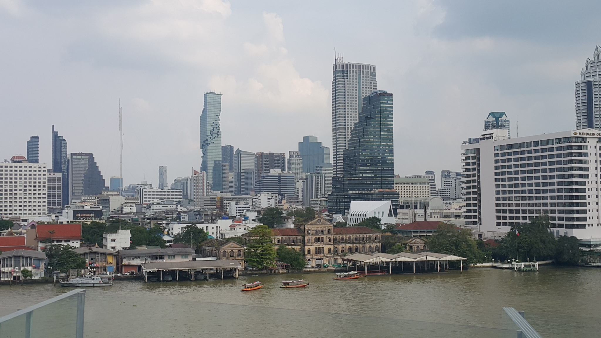 Bangrak as seen from ICONSIAM